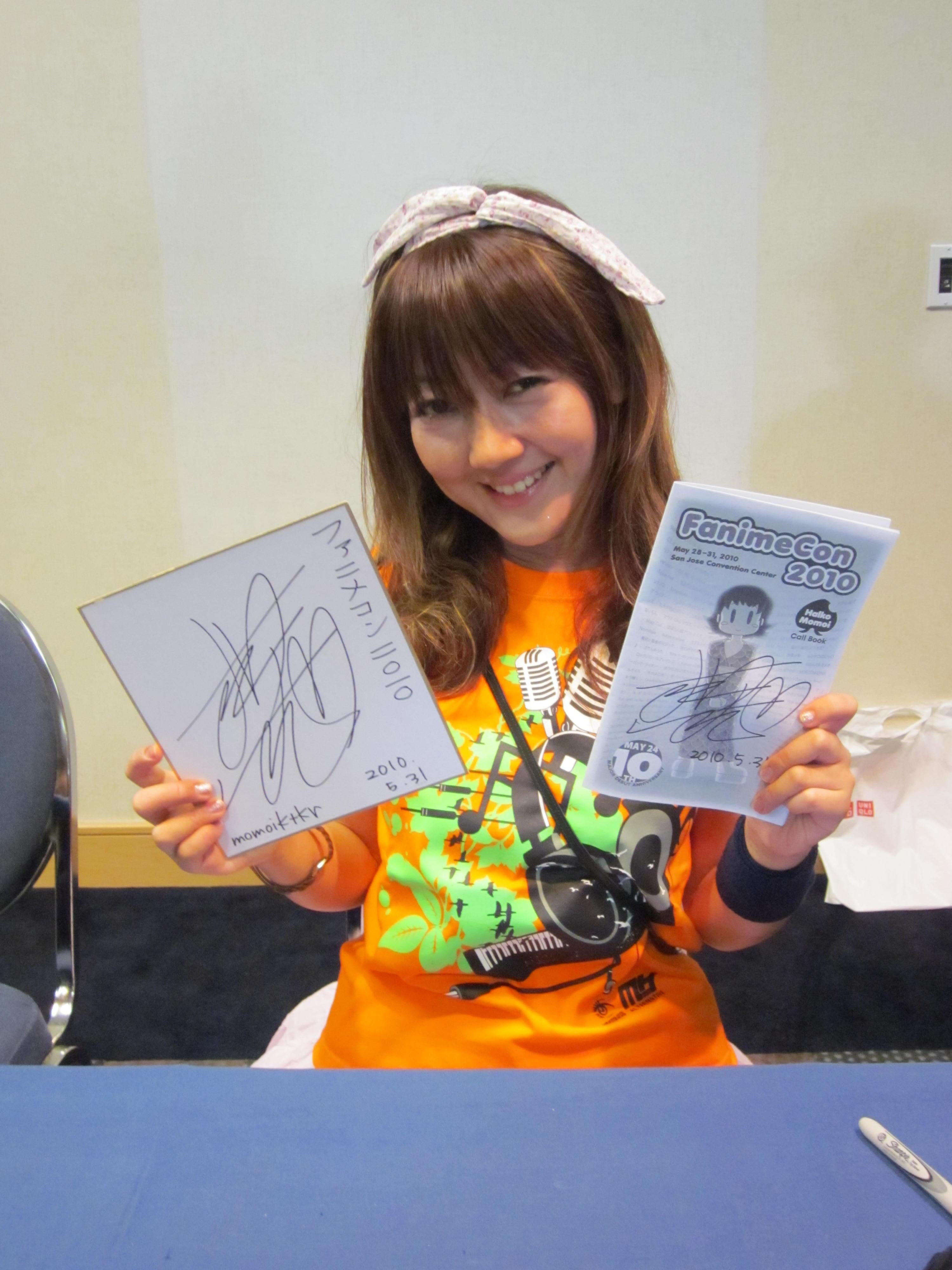 Haruko Momoi at an autograph signing at FanimeCon 2010 in San Jose, California.